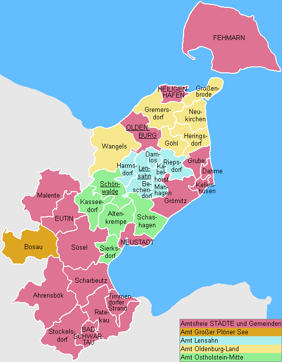 This map shows the Ämter (counties) and Gemeinden (municipalities) in the Kreis (district) Ostholstein in Schleswig-Holstein, Germany.